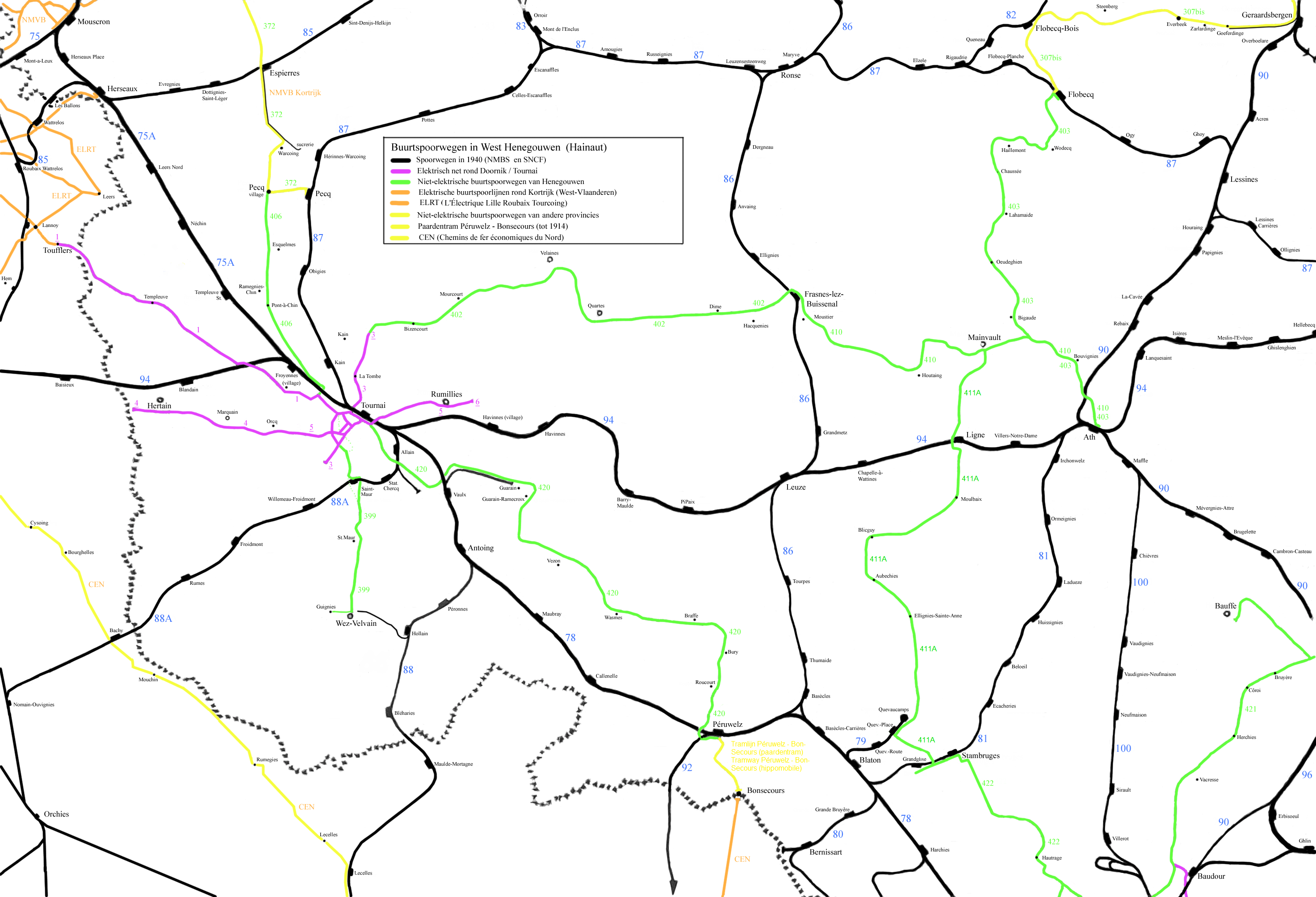 Map off the vicinal railways in the province off Hainaut (Westside). Purple lines = electrified lines in 1940 Brown lines = electrified SNCV lines outside province Green lines = non-electrified lines in 1940 Yellow lines = idem, but outside the province Black lines = Railways (normal gauge)